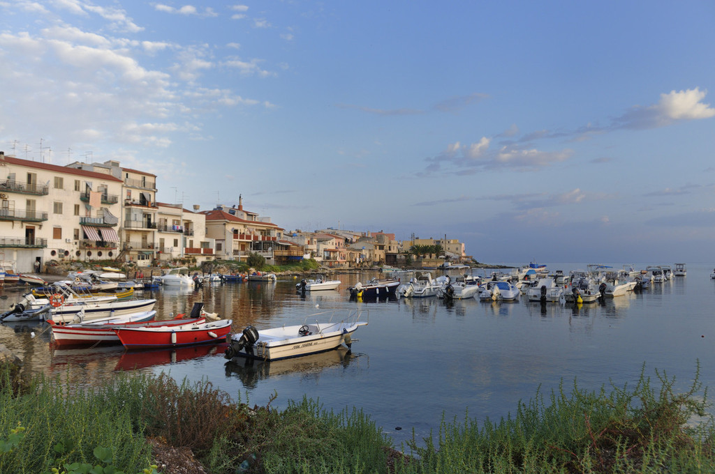 Brucoli Syracuse Sicily Italy - Creative Commons by gnuckx